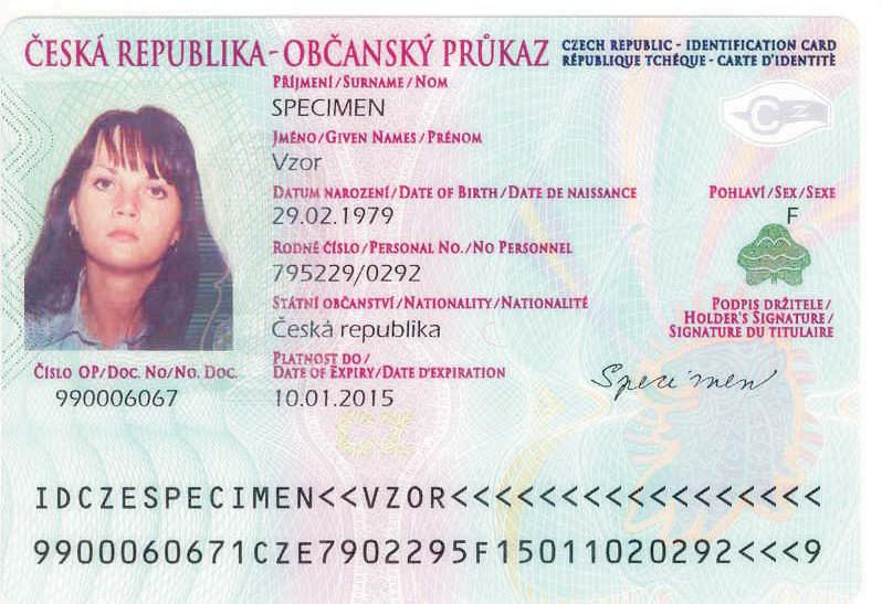 Czech Republic - Identification Card